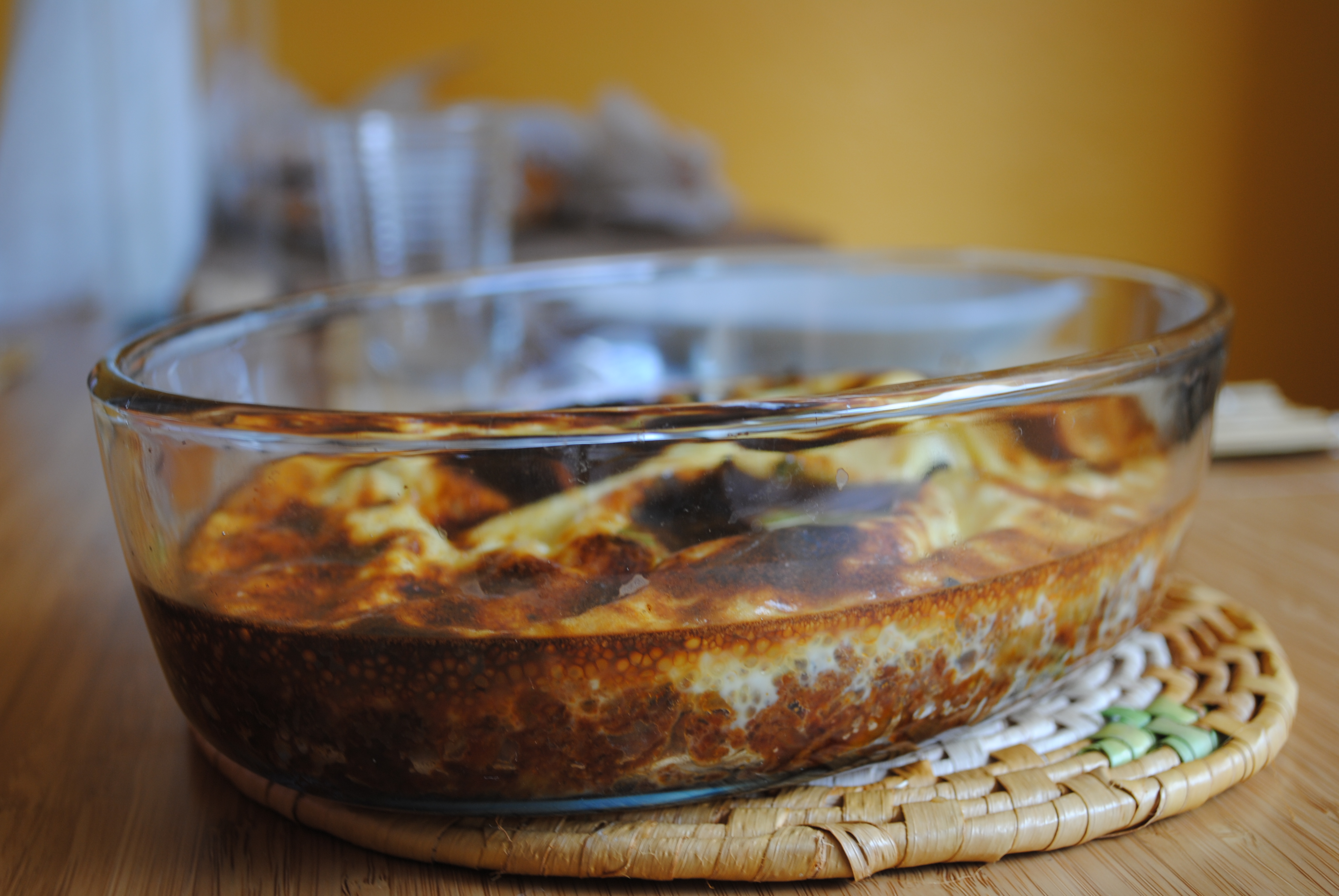 Bobootie, a South-African dish made with minced meat, spices, egg and milk This is an image of food from South Africa